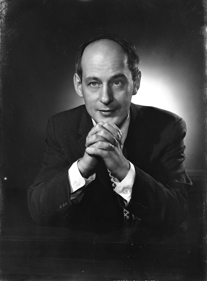 For documentary purposes the original description provided by BAnQ has been retained. Additional descriptive text may be added by Wikimedians with the wiki description = parameter, but please do not modify the other fields.